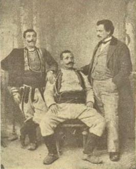 Apostol Frchkovski, leader in IMARO, in the middle, together with fellows